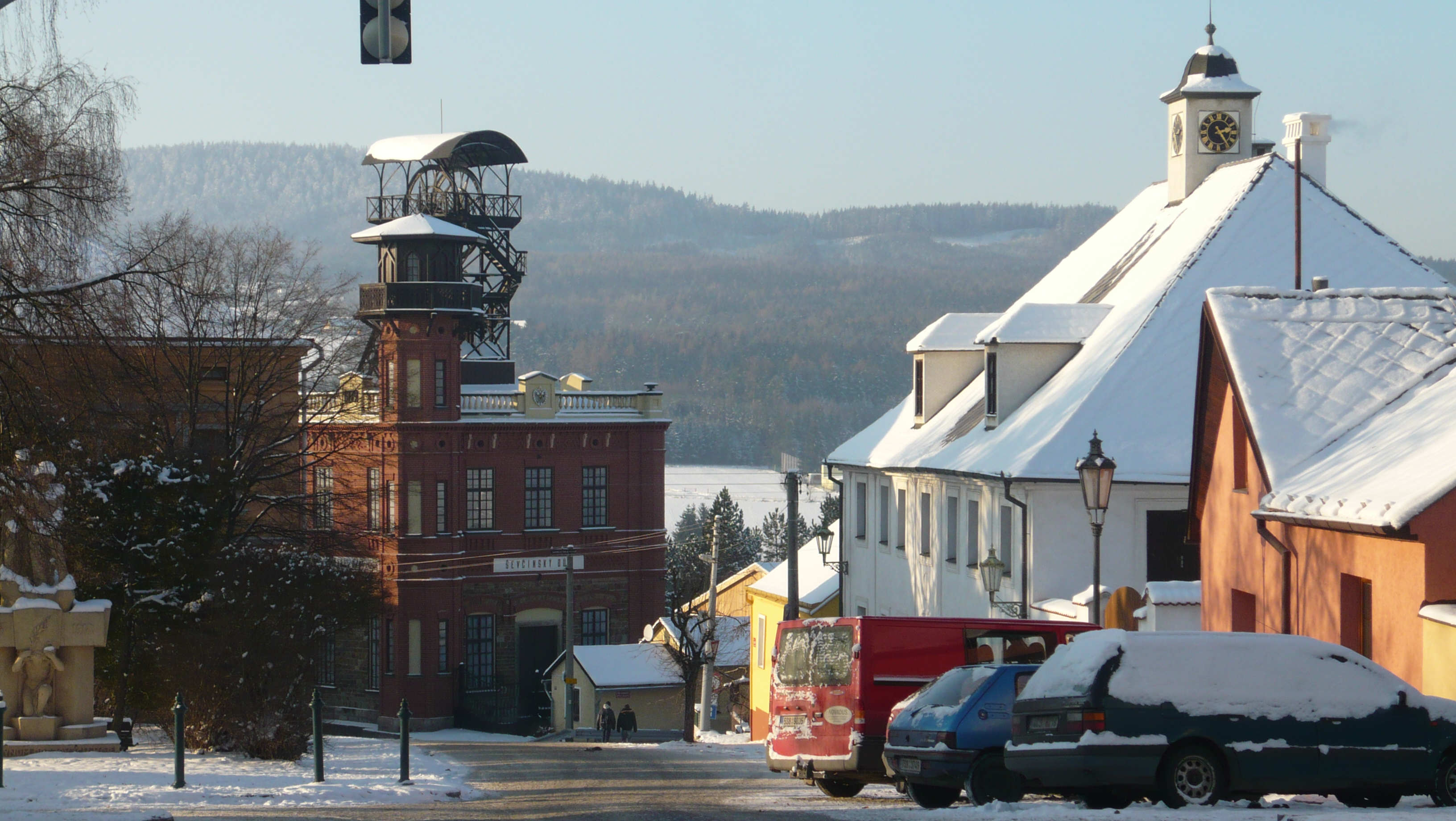 Ševčín´s mine in winter